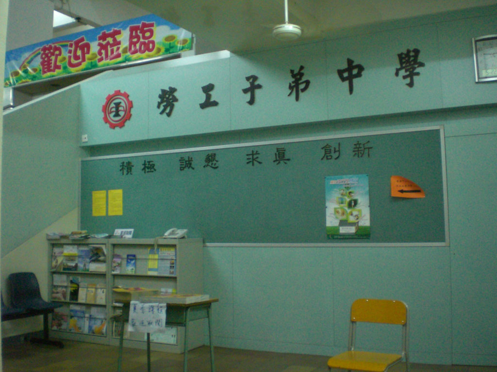 勞工子弟學校 (香港)